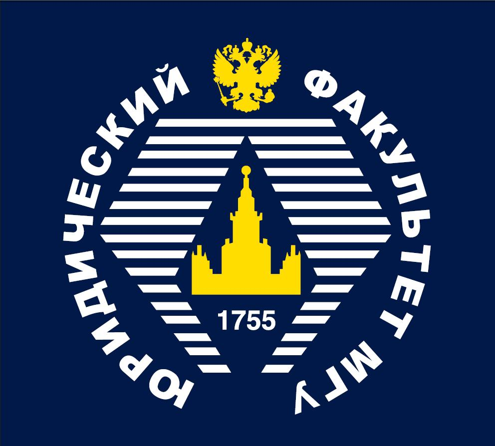 The Logo of the MSU Faculty of Law